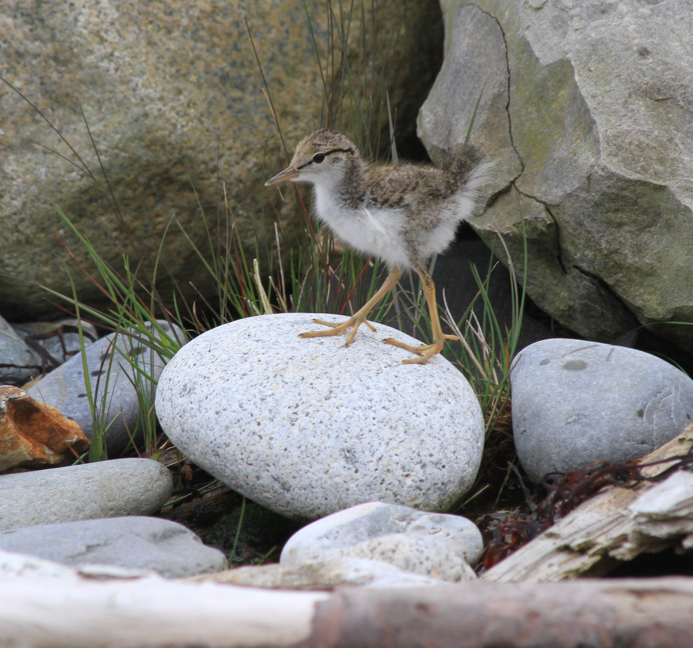 Metinic Island, Maine Coastal Islands NWR. Summer with the Seabirds blog: Credit: Brette Soucie/USFWS